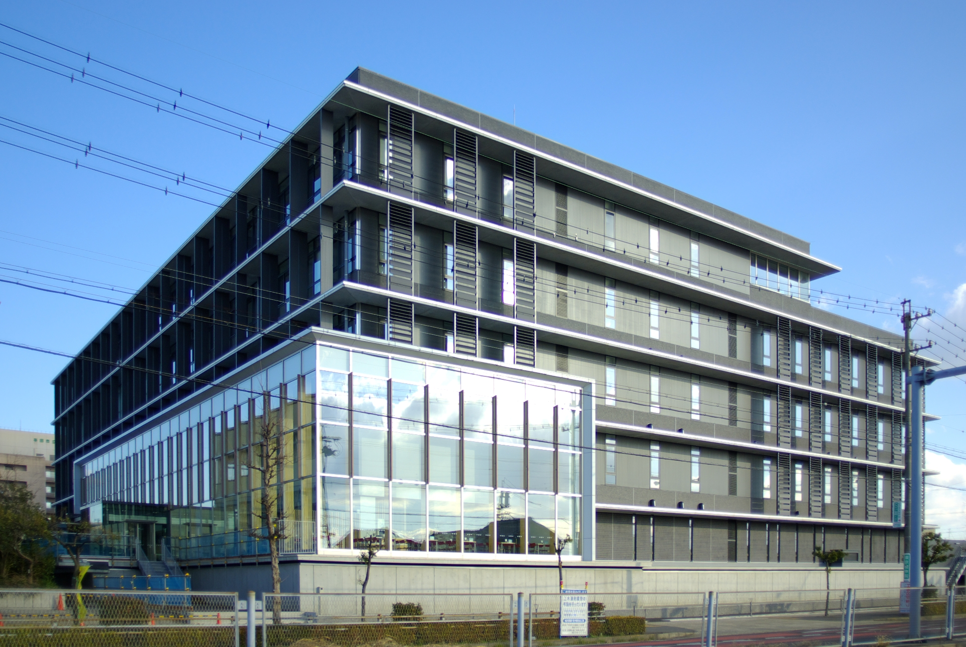 Handa City Hall, Aichi Prefecture (New building, which opened in January 2015).